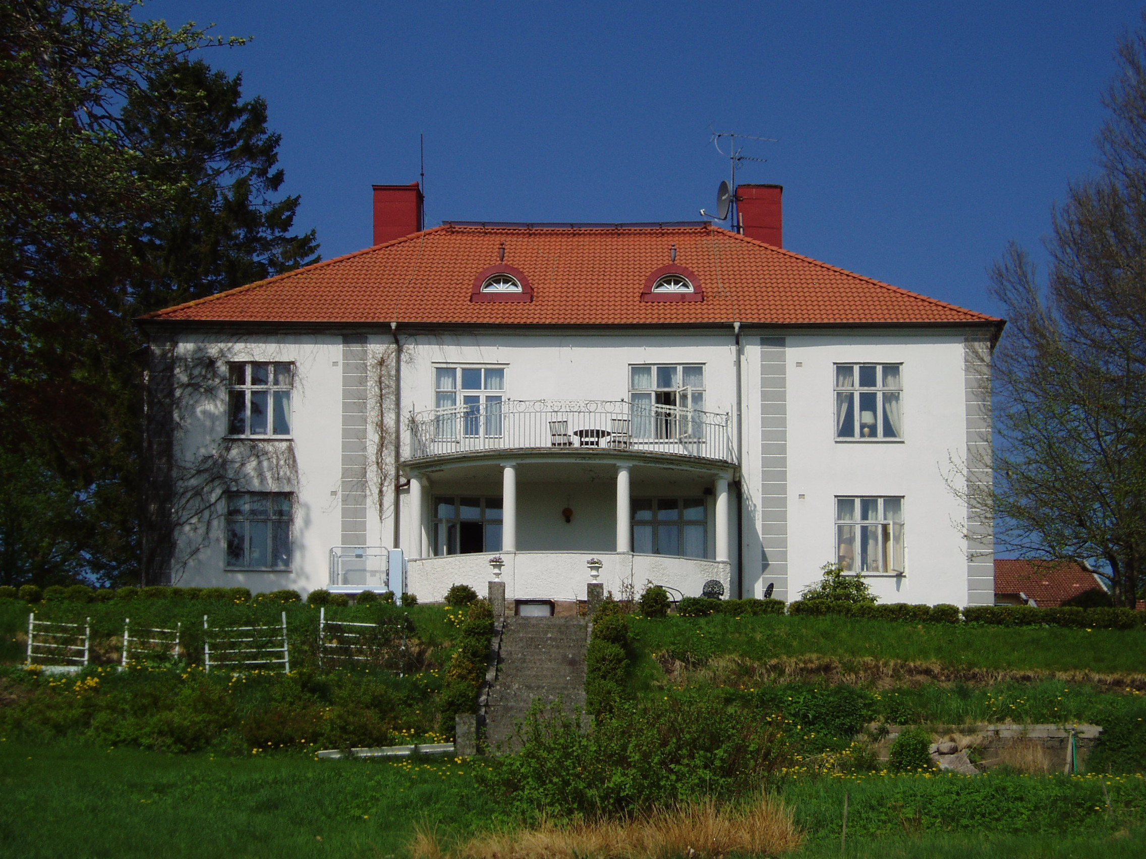 Stensjöhill, mansion in Mölndal municipality, Sweden